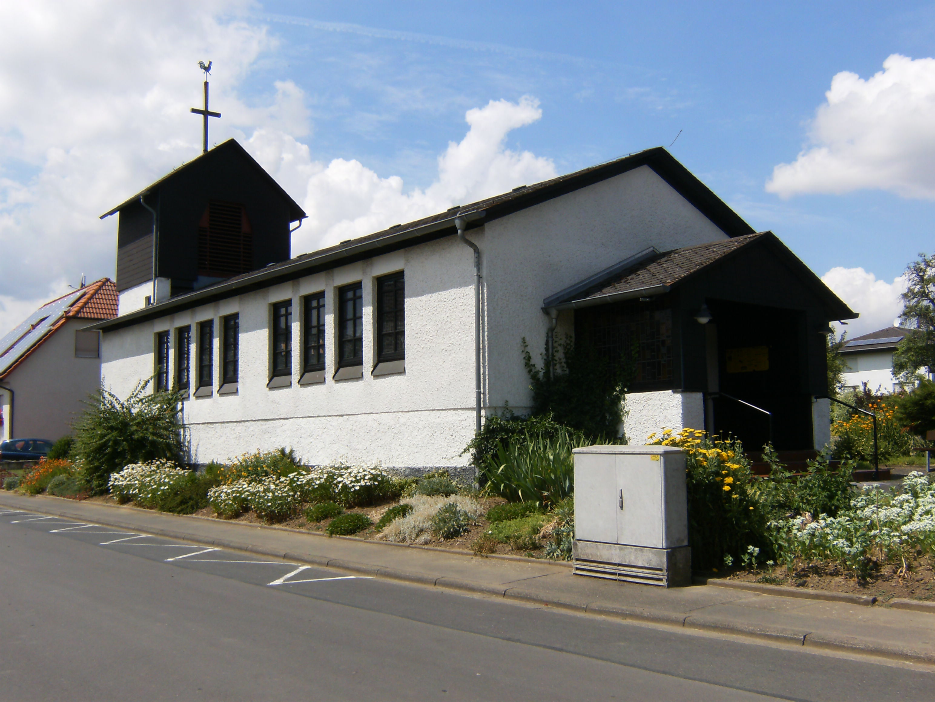 Lich-Eberstadt (Hesse), catholic church.